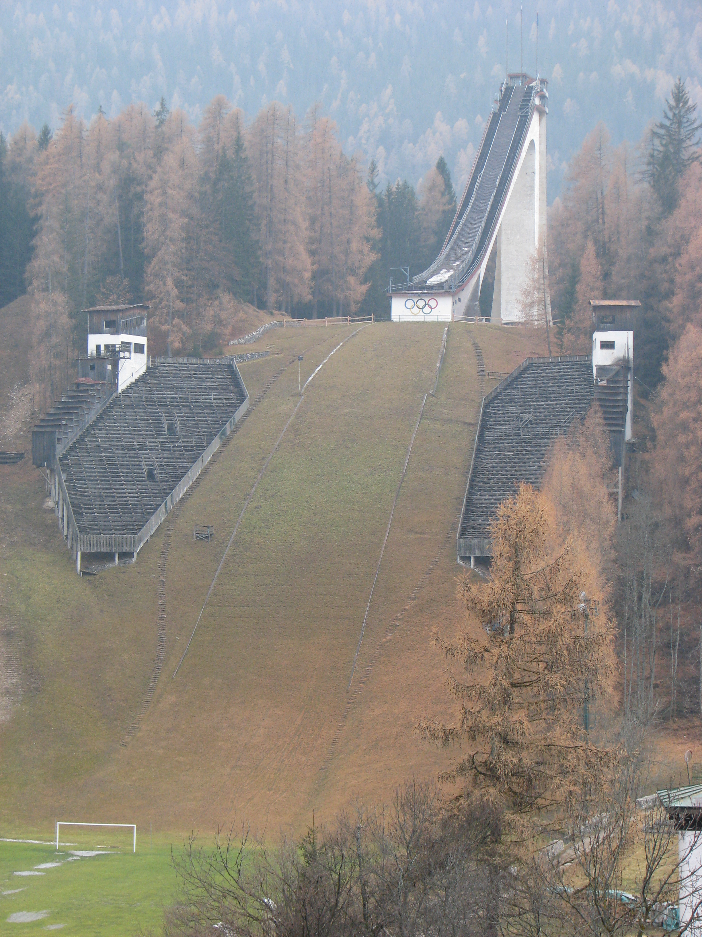 Cortina ski jump